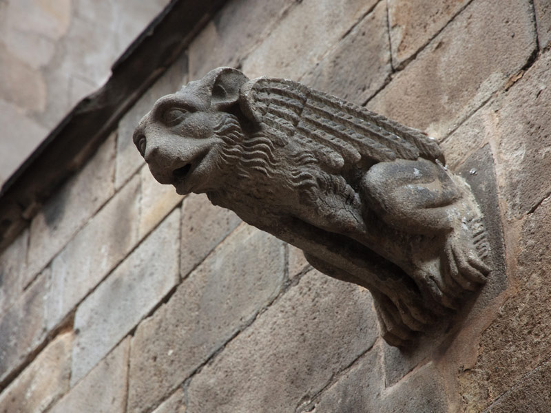 Cathedral of Barcelona. Gargoyle.